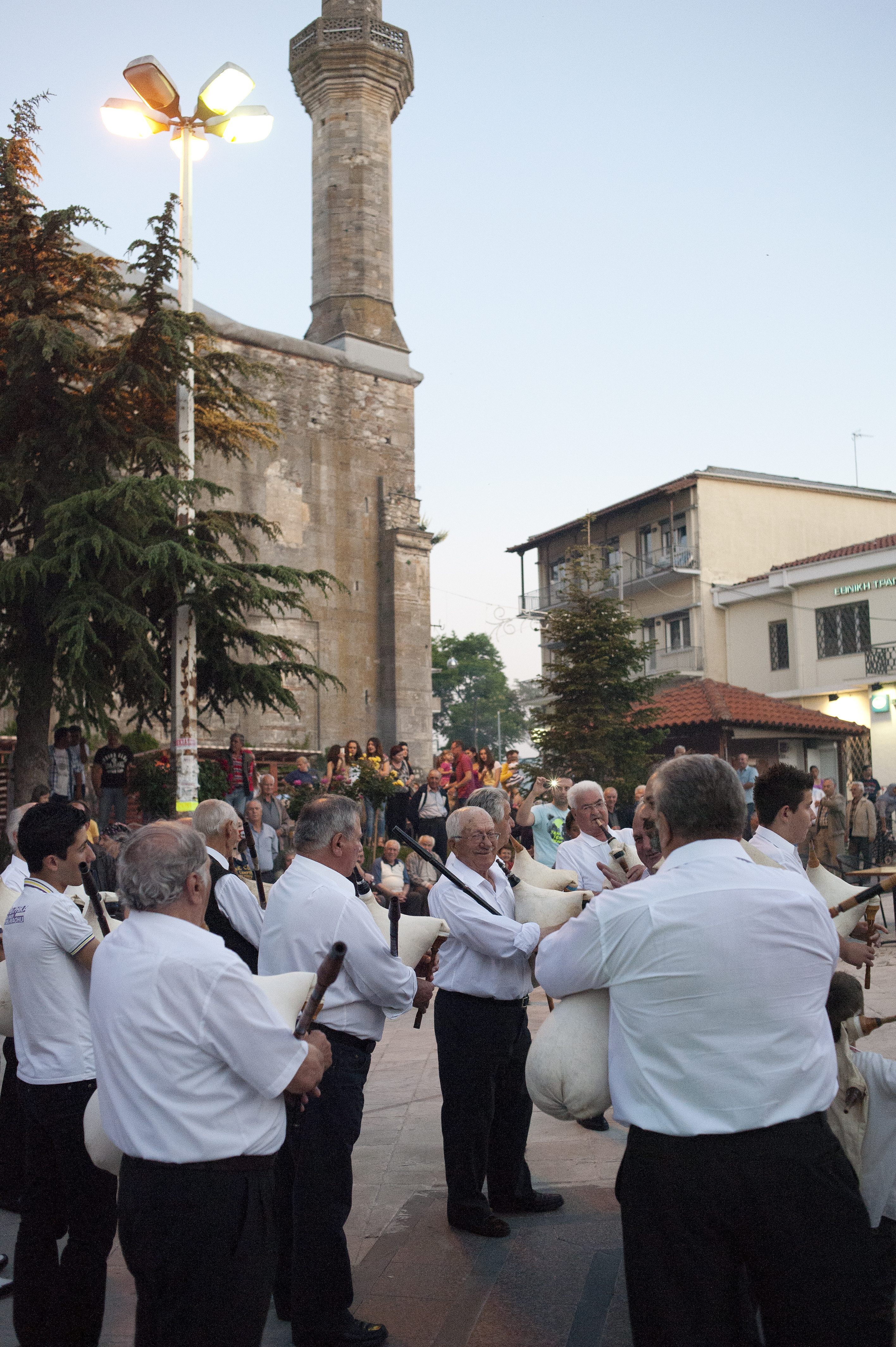 "Kale Panair" bag-pipes festival, Didymoteicho, Evros, Greece.